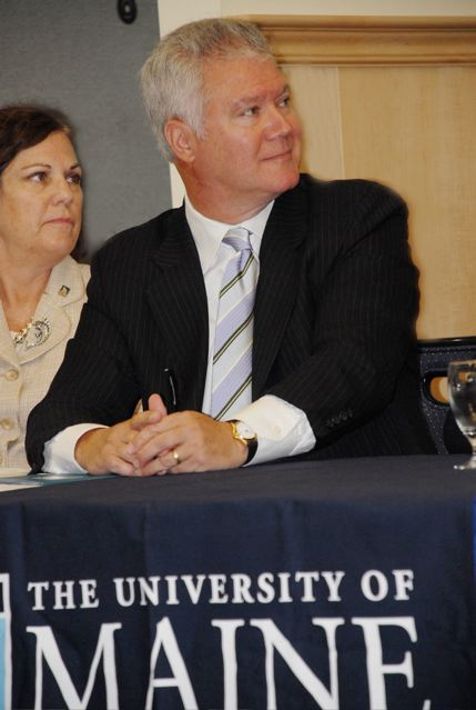 John RIchardson participating in a presentation to the University of Maine where the university received a $10 million EPSCORE grant for economic development with sustainable solutions